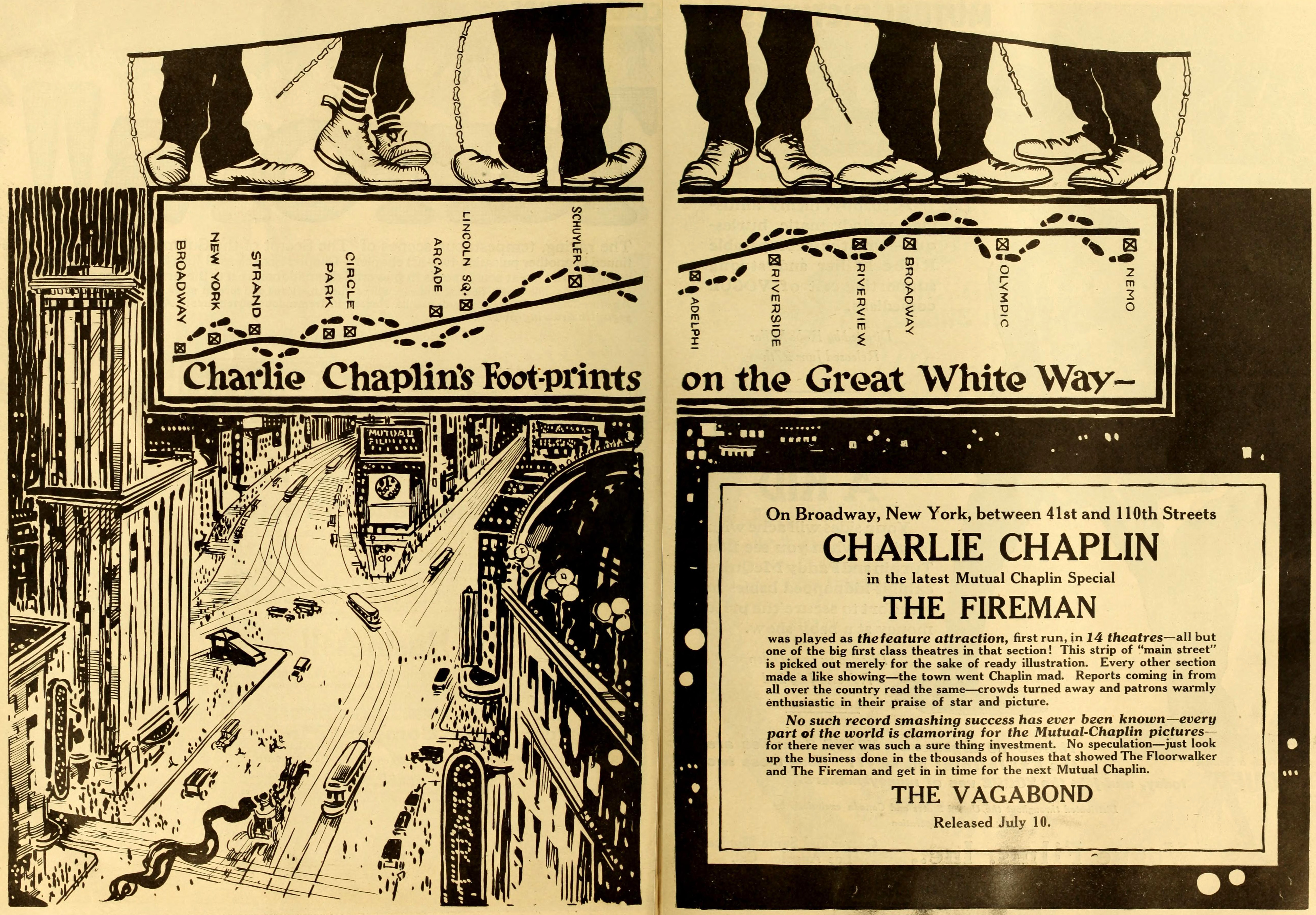 Advertisement in The Moving Picture World